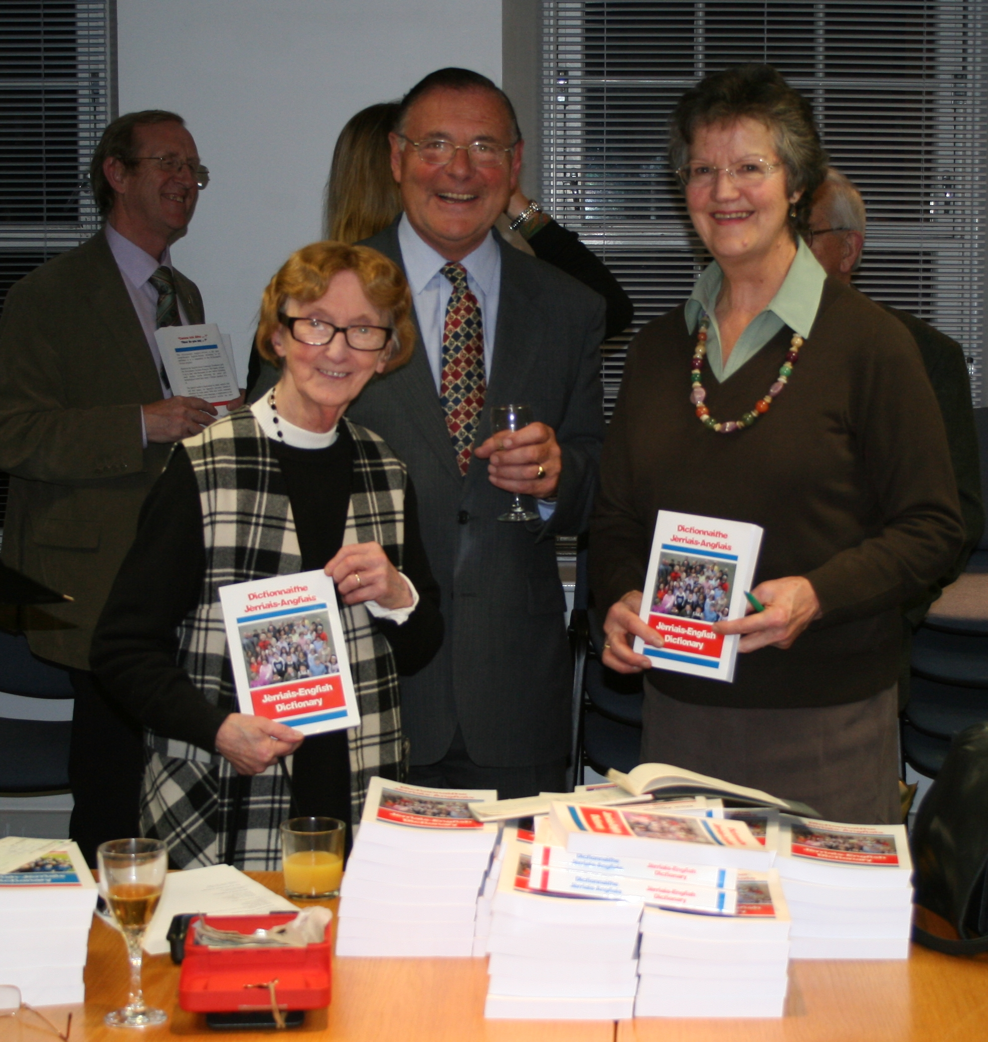 Launch of Jèrriais-English dictionary on 5 December 2008 at La Société Jersiaise